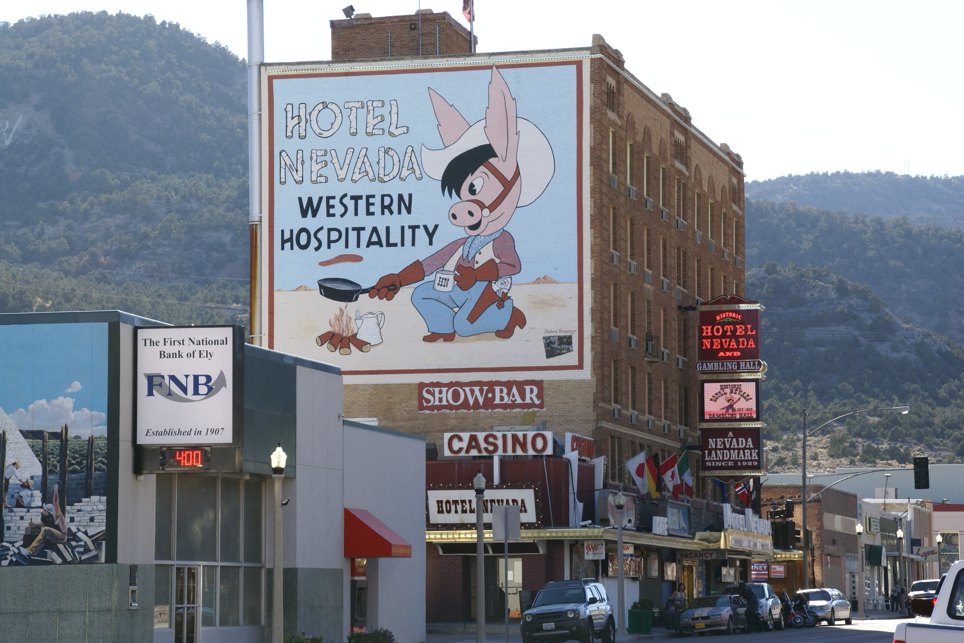 Hotel Nevada at Aultman Street in Ely, Nevada, USA